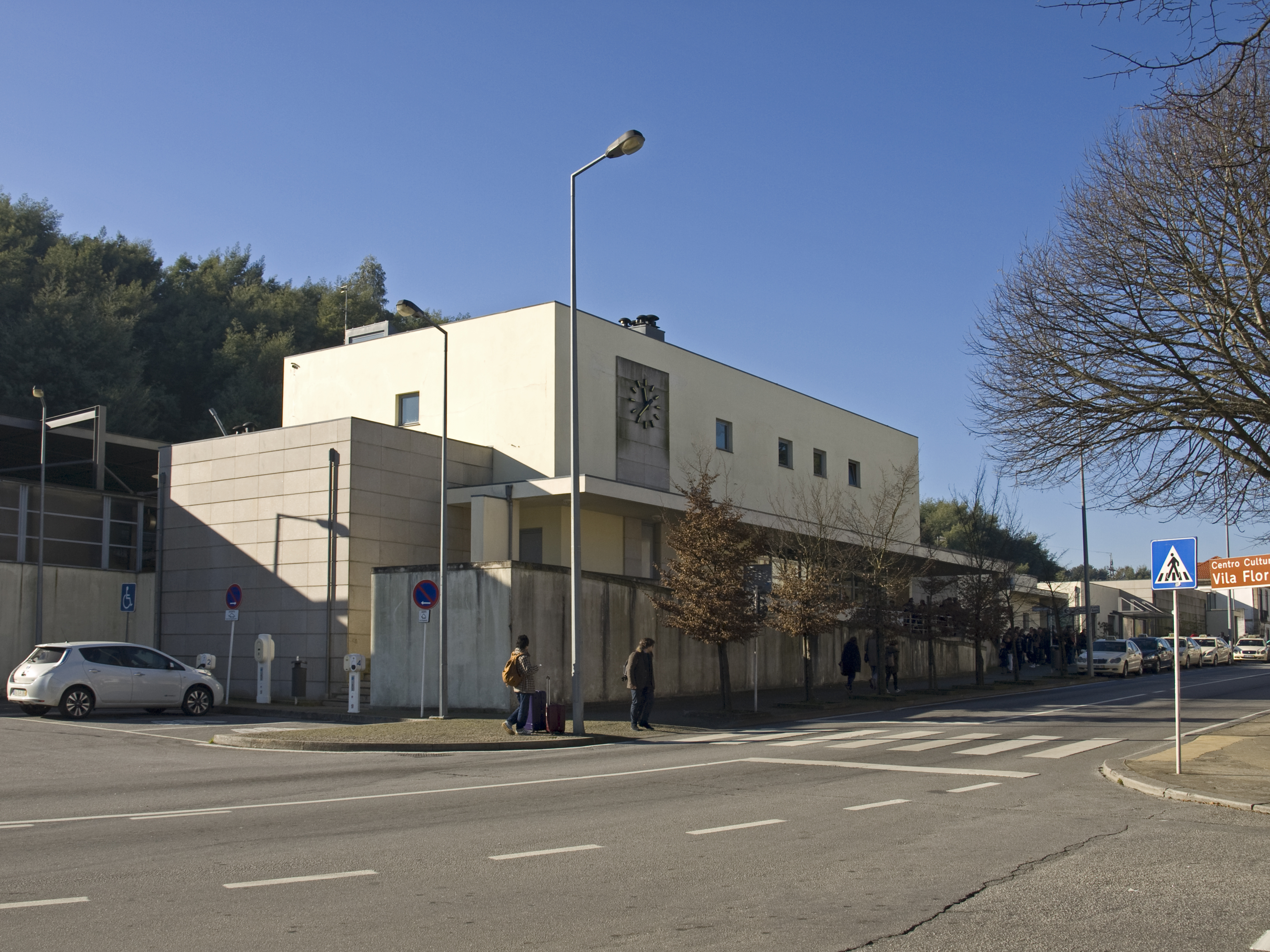 The new building of Guimaraes railway station